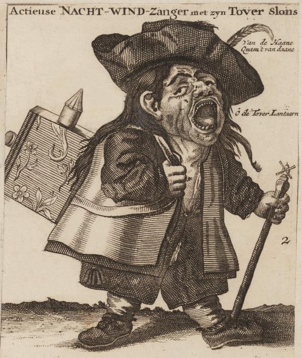 The great scene of folly: displaying the rise, progress and fall of the action, bubble and wind-negotiation, in France, England, and the Netherlands, played out in the year 1720, being a collection of all the plans and projects being straight companies of insurance, navigation, commerce, etc. in the Netherlands, as well put in use, as rejected by the high states of some provinces: as information pictures, comedies and poems, published by separated lovers, to revile this detestable and deceptive trade, whereby separated families and persons of high and low position are ruined in this year, and corrupt in its resources, and sincere negotiation blocked, as in France, England and the Netherlands.